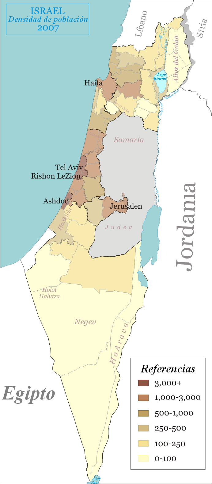 Population density of Israel by geographical region, as defined by the government and CBS